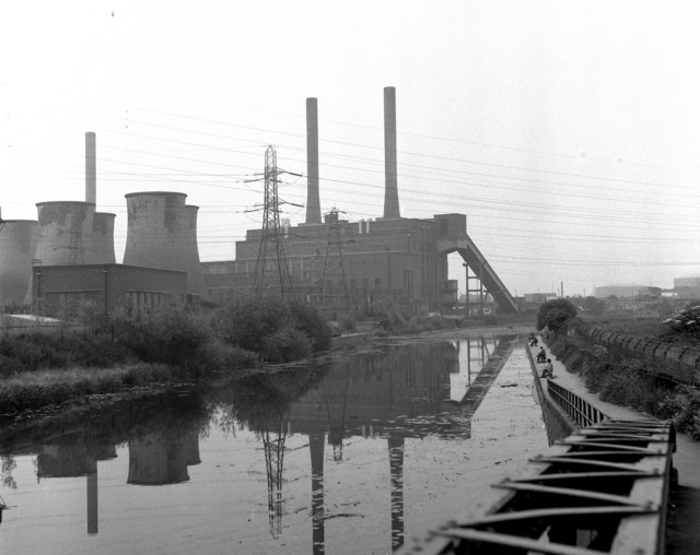 Freeman's Meadow Power Station, Leicester